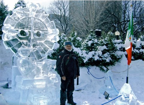 1 Abel Ramírez Águilar with ice scupture of a Chac Mool called "Nuestros Orígenes" and Mexican flag at Winterlude ice carving contest 2008